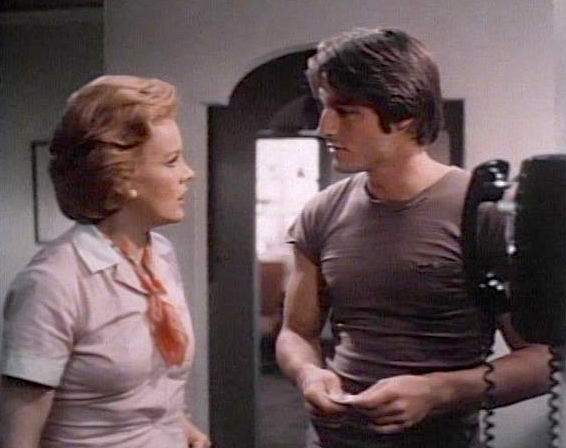 Screenshot from Andy Warhol's Bad (1977) trailer. Carroll Baker and Perry King.